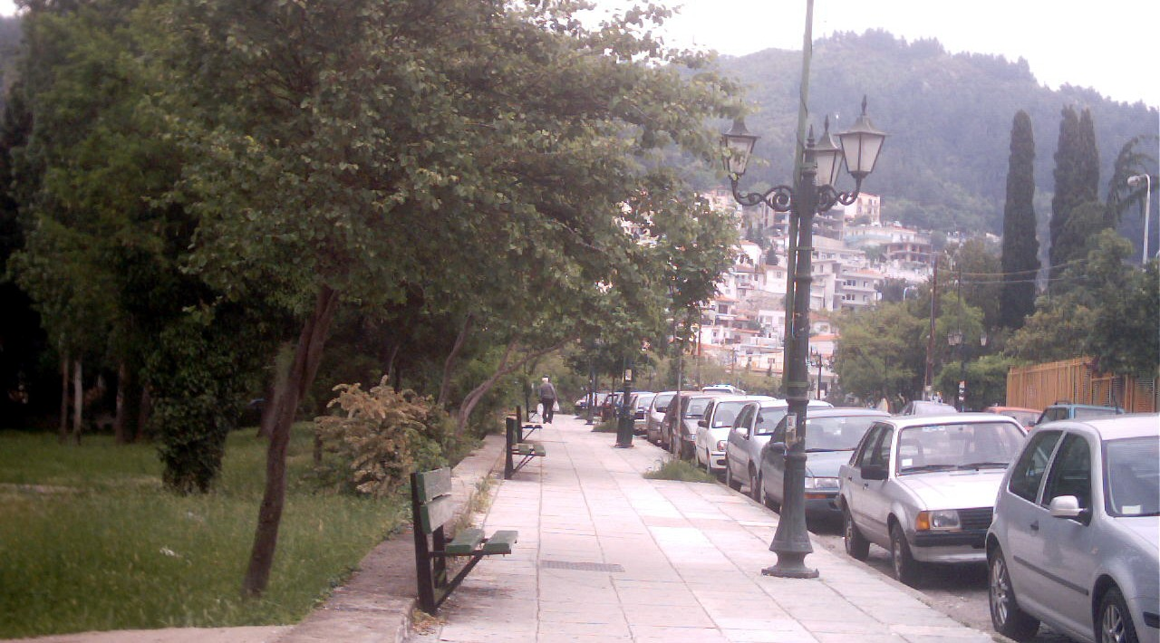 City of Xanthi, Thrace, Greece.